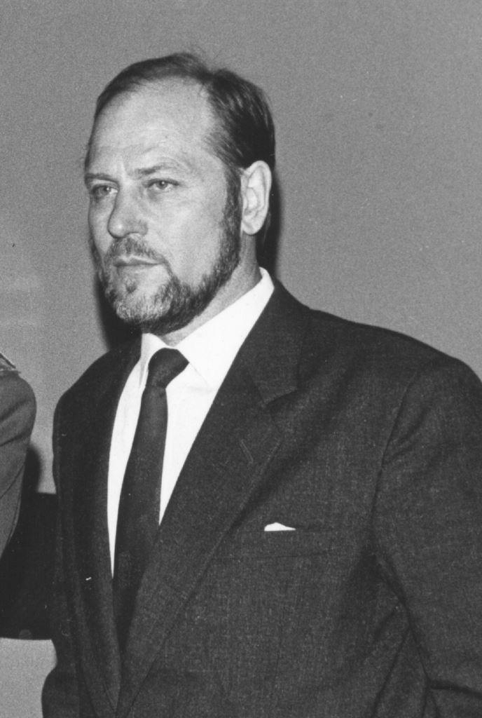 Konstantin Skvortsov